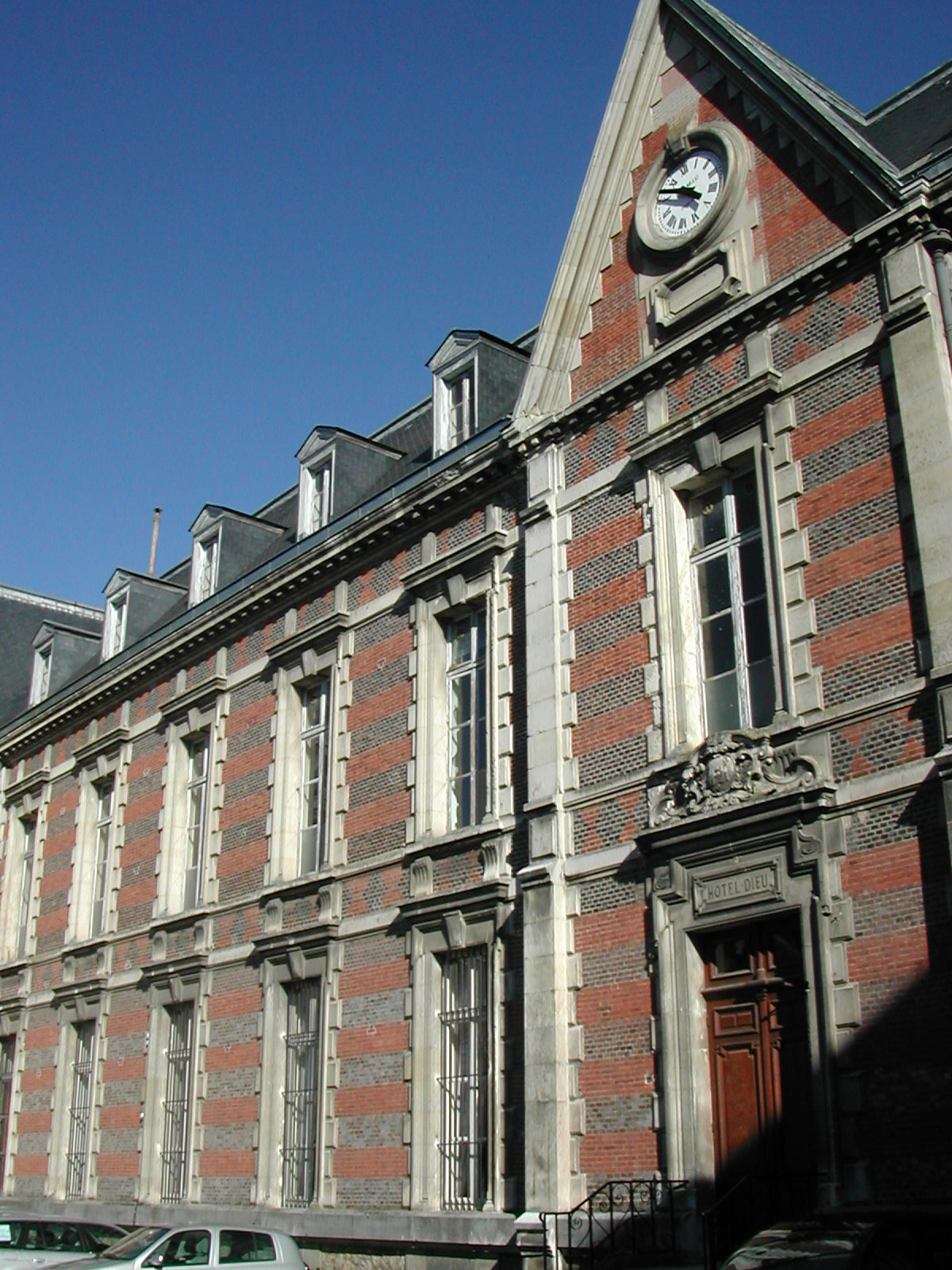 The Hôtel-Dieu (literally "God's hostel") in Château-Thierry (Aisne, France). (former hospital of the town)